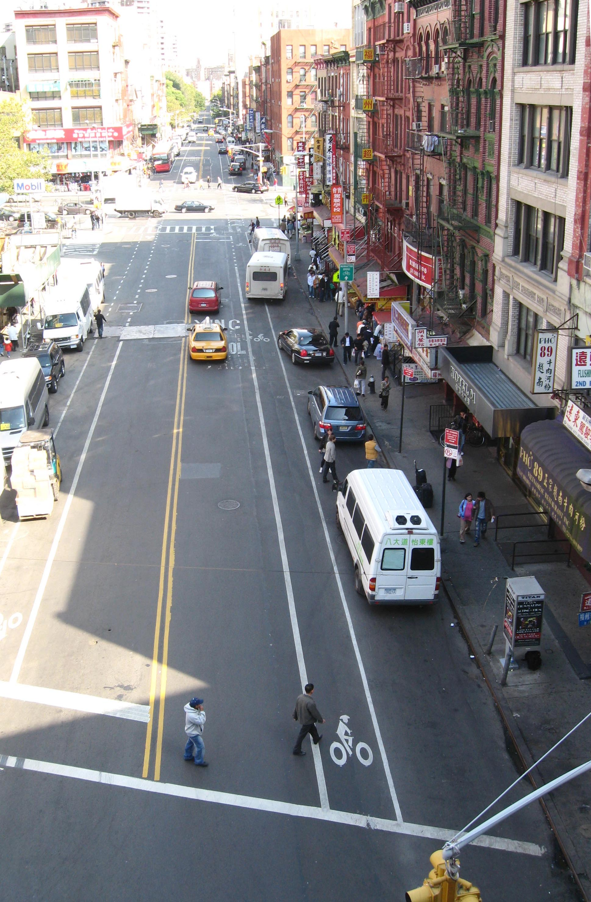 Looking down and east on East Broadway (Manhattan) from bike path of Manhattan Bridge on a mostly sunny midday. Taken for Wikis Take Manhattan project.